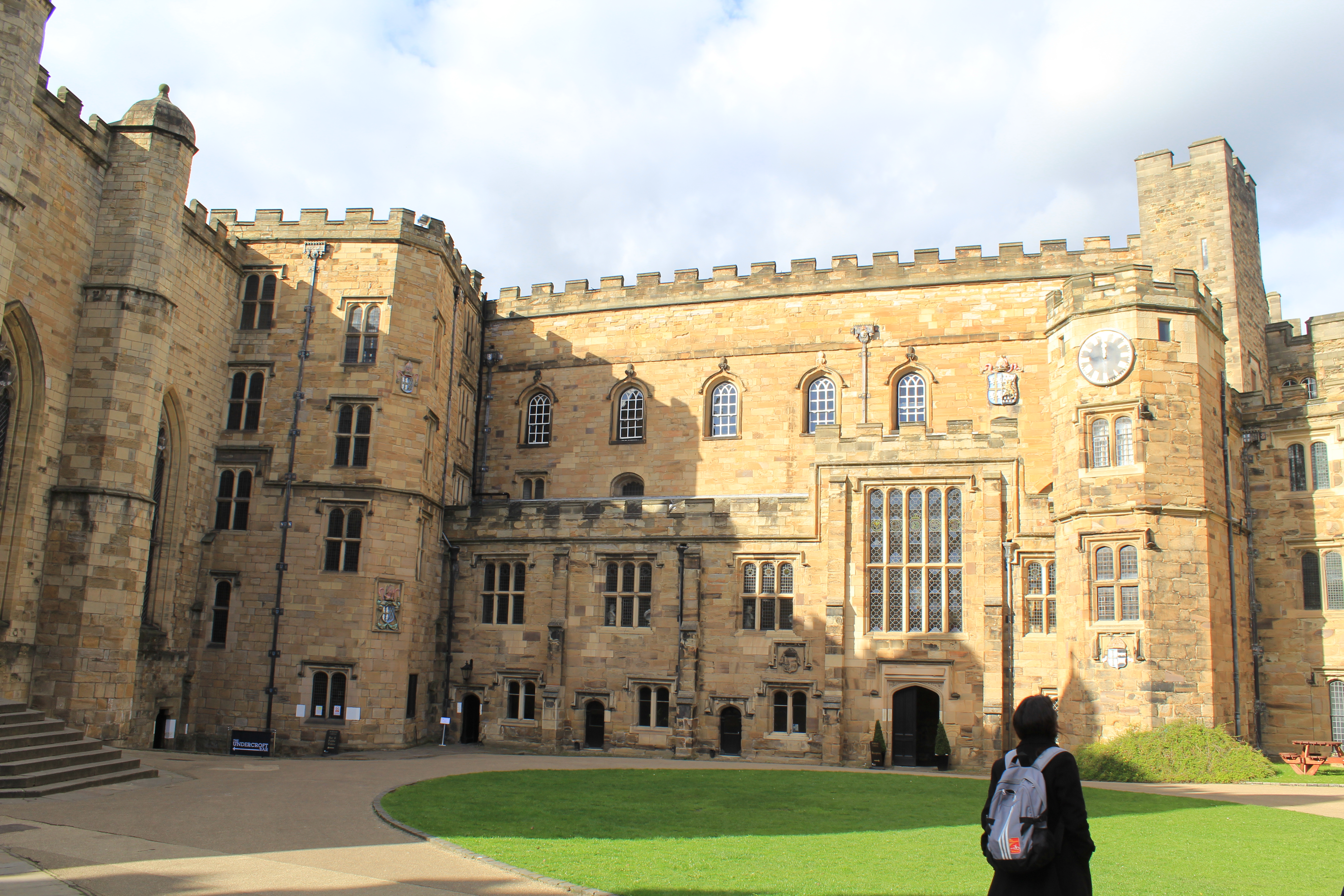 Durham Castle, April 2017 (4) This file was generated using equipment from Wikimedia UK, a Wikimedia local chapter.